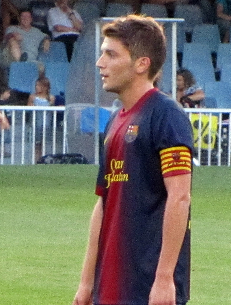 FC Barcelona B player Ilie Sánchez in the 2012-13 home kit. The red and yellow thing on his arm is the Captain's armband, which looks like the Catalan flag. Foto realizada por Javier Segura (@castroquini)